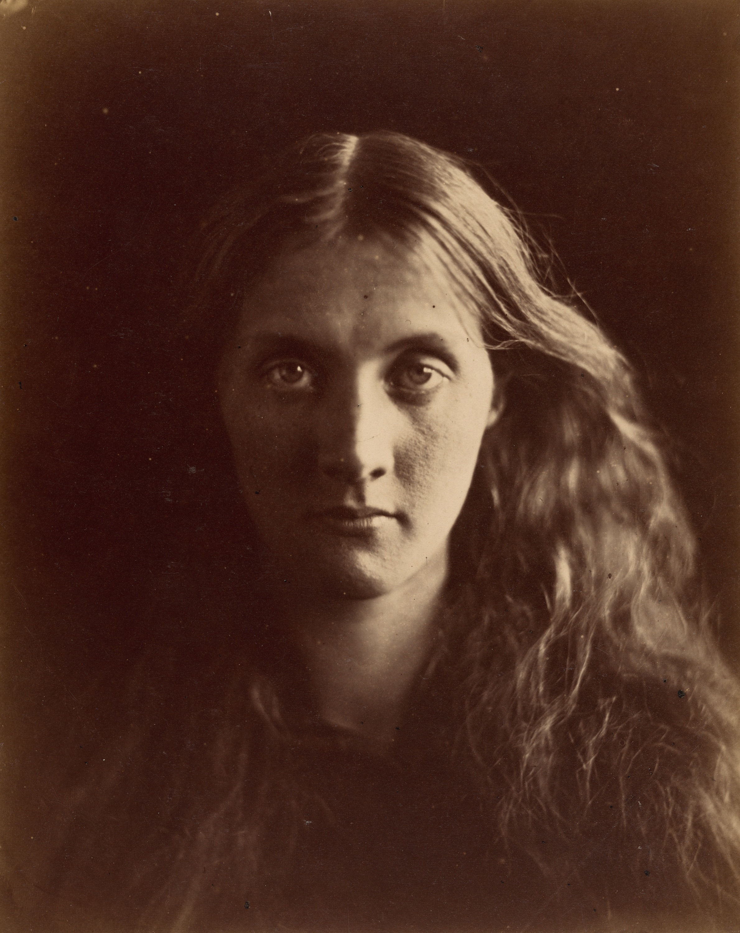 Portrait of Julia Stephen born Julia Jackson, mother of Virginia Woolf.